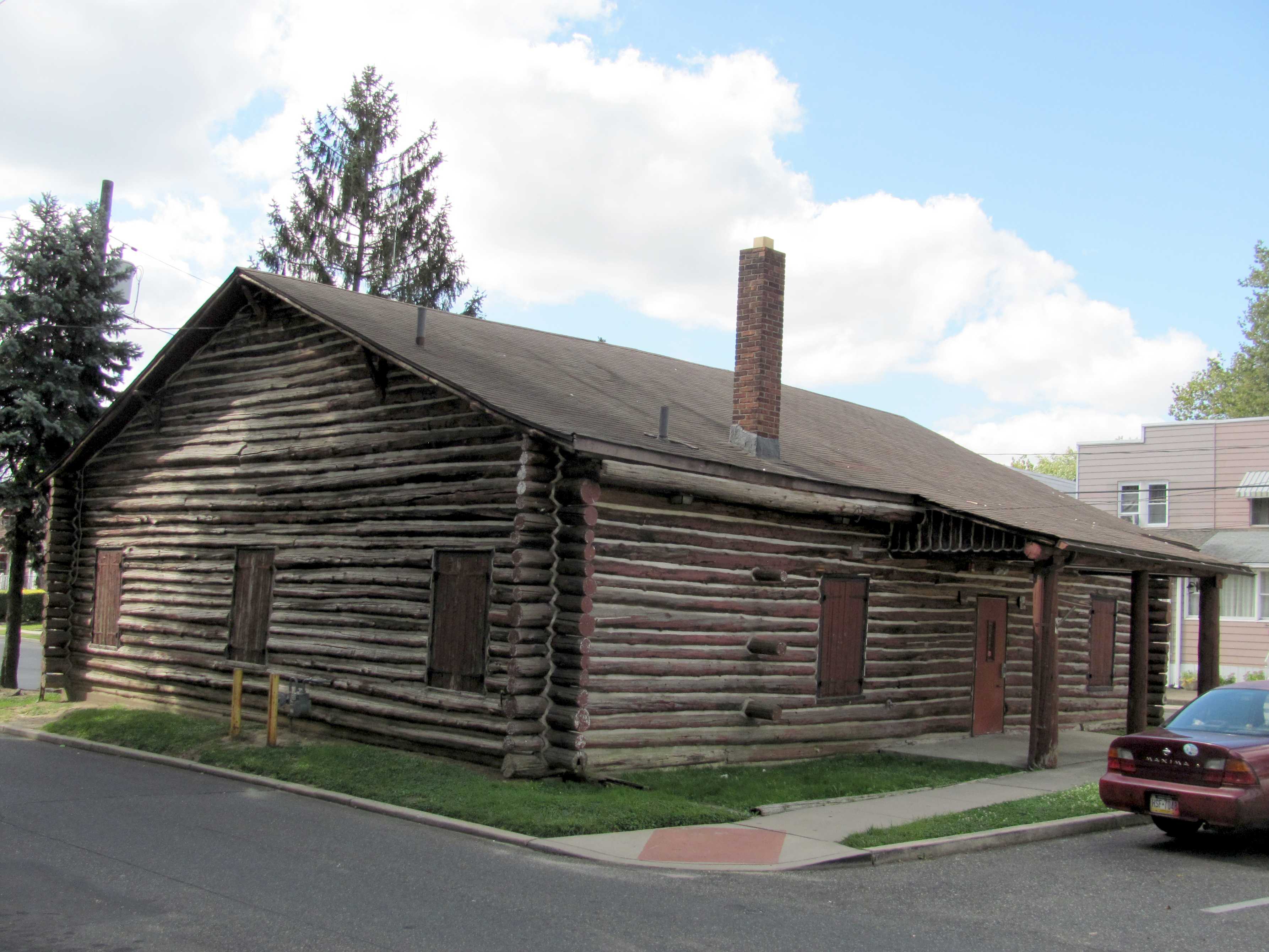 View of Woodlynne Log Cabin, 200 Blk. of Cooper Ave. Woodlynne, New Jersey, looking southwest along Cooper Ave.